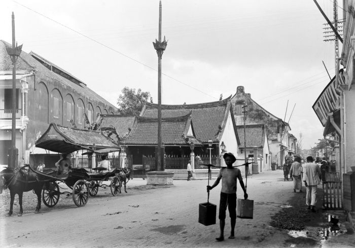 As is known, the Dutch were not the only non-Javanese in Java during the colonial period. A larger group than the Dutch was formed by the Chinese. They were already in Java when the Dutch for the first time set foot, just before 1600. Many Chinese had native concubines, so that a large group of mestizos (often called Peranakan Chinese) arose that spoke Malay or Javanese. Sometimes they were Muslim, they spoke of a shaved Chinese, because the characteristic pigtail disappeared. The Chinese had their own rituals brought on 10001017 depicted as the lantern festival. However, not all Chinese were Muslim and they worked their own temples, especially in the big cities, where simply the largest groups were Chinese. Here they played a major role in the import trade, brokering and the retail and had held various crafts. These occupations often they acquired an adequate capacity. Who was rich, had to also show and that was through contributions to the building of temples. Incidentally, there was a constant stream of gold and silver to China, where many of them were contacted, in the village of origin to build temples. (P. Orchard, 2001). Street scene at a Chinese temple in Surabaya (edit: This temple is Hok An Kiong Chinese Temple, Jalan Coklat. The building to the left is probably a bank, in any event it is now - December 2012 - and I believe it was constructed as such. The donation records seen December 2012 within the temple showed that it contributed to the temple within the last decade or two, so it may be under (part-)Chinese management.)